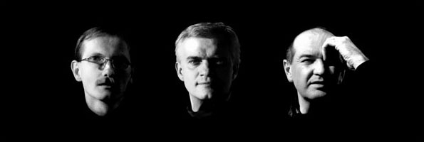 picture of three architects used in their wiki profiles